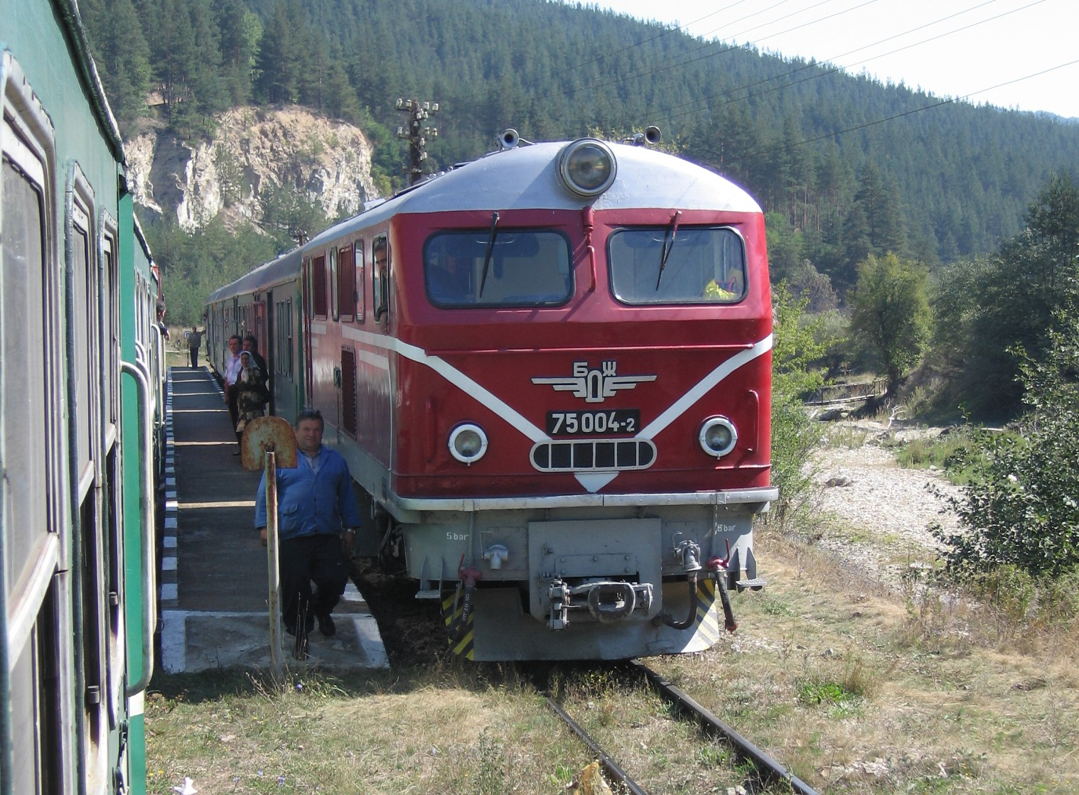 Locomotive 75004-2 of Bulgarian BDŽ / БДЖ. Narrow-gauge railway Septemvri–Dobrinishte.